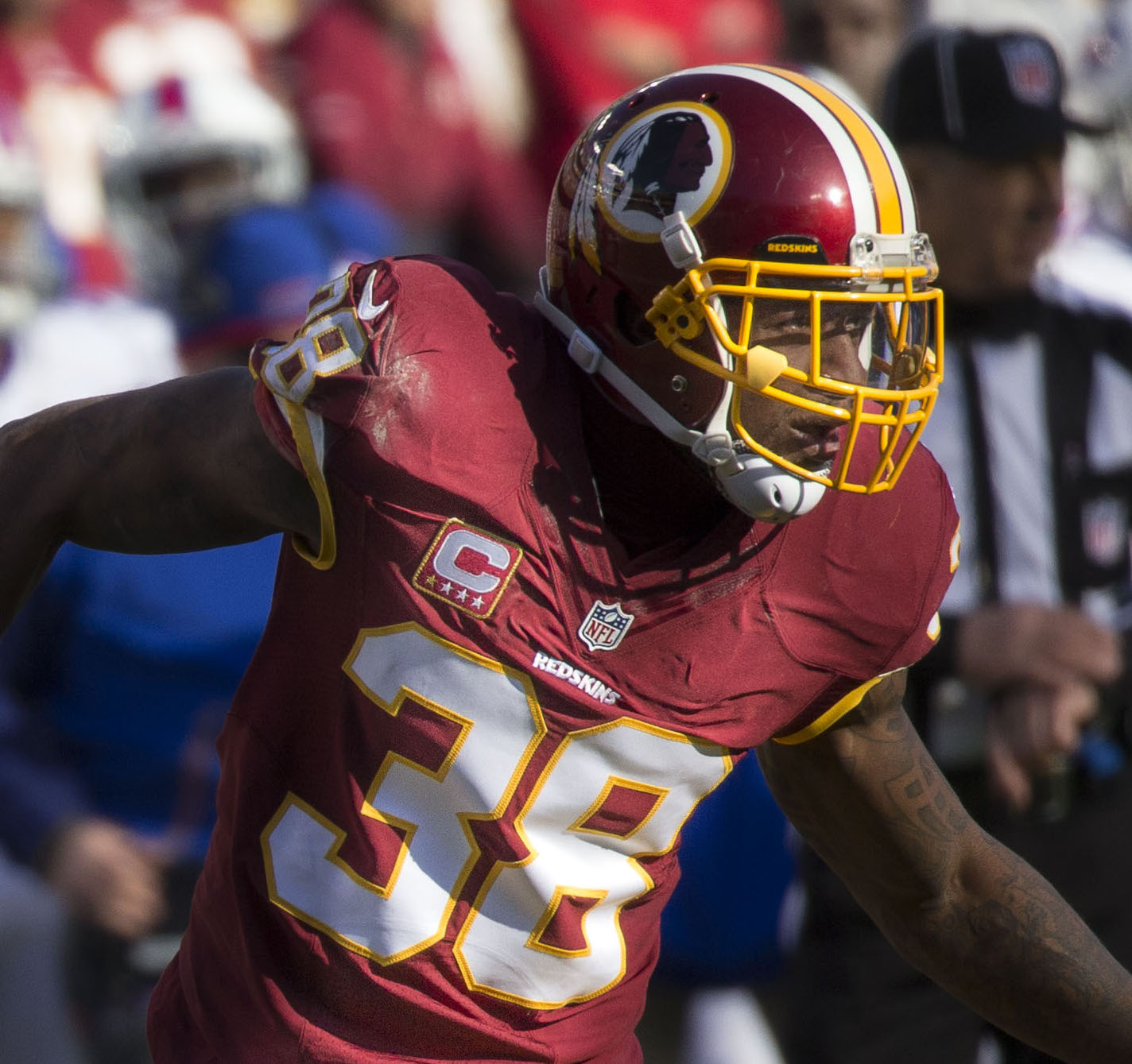 Washington Redskins free safety, Dashon Goldson, playing against the Buffalo Bills on December 20, 2015.